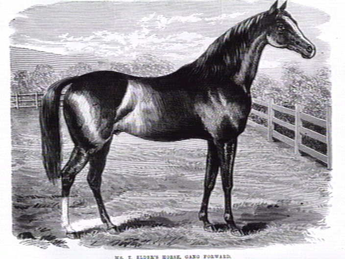 Mr. T. Elder's horse, Gang Forward. Winner of the 1873 Ascot Derby and 2000 Guineas.